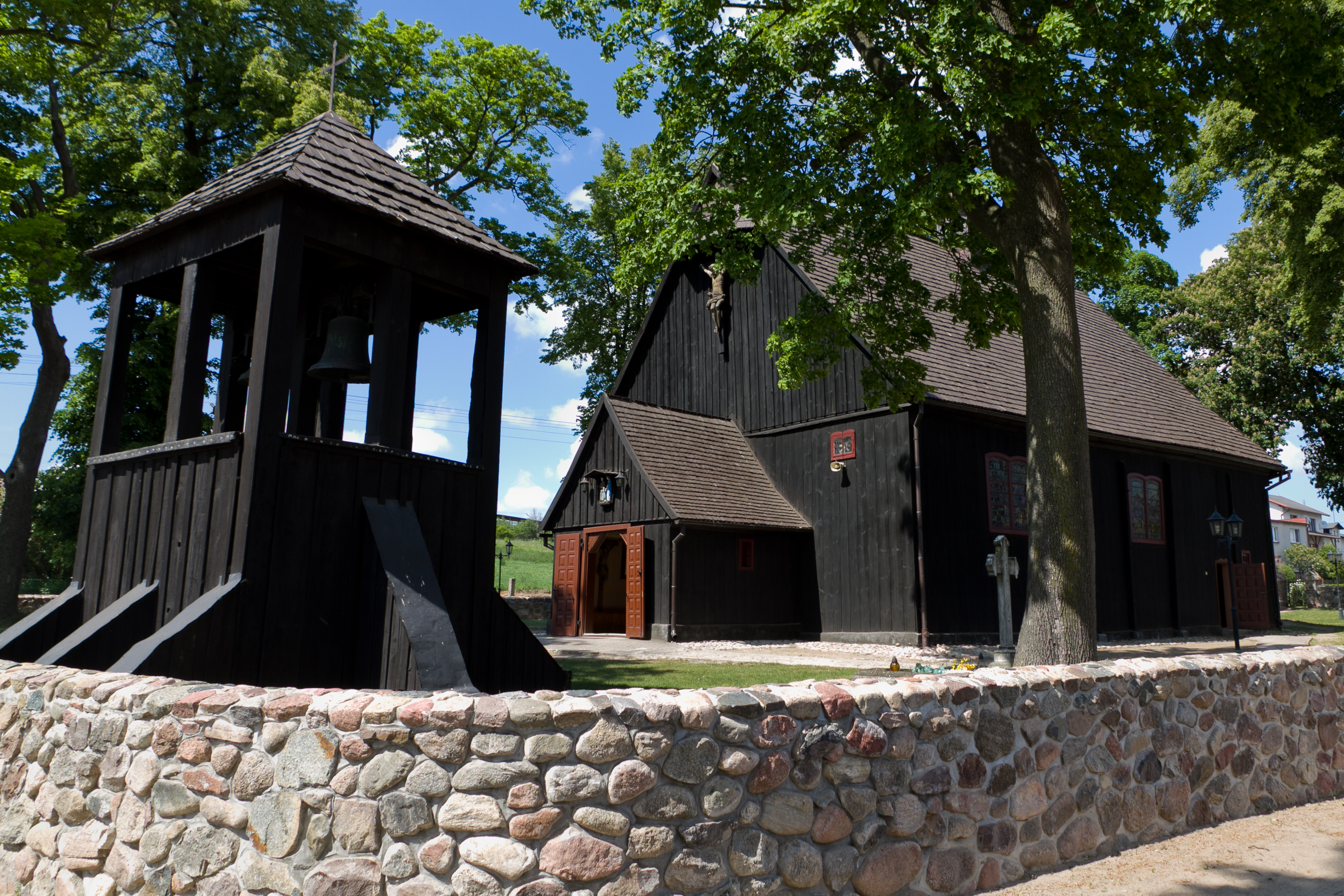 Radoszki, Kuyavian-Pomeranian Voivodeship historic wooden church and bell tower